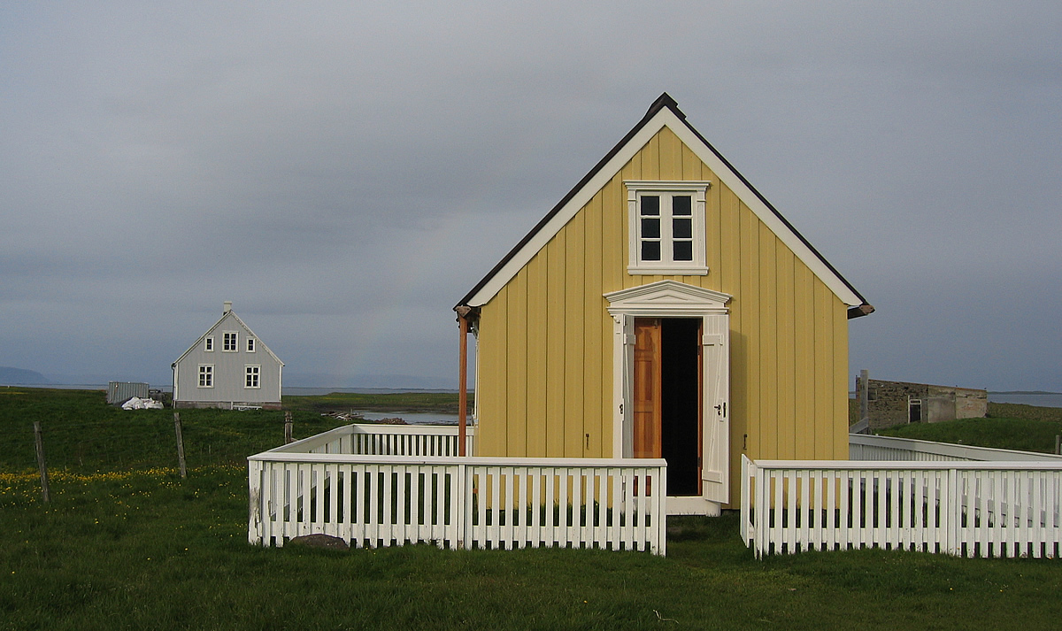 the library in Flatey